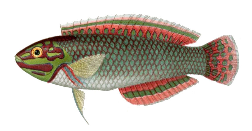 Halichoeres ornatissimus